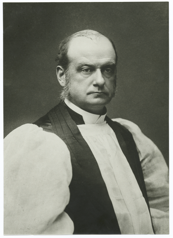 The bishop of the Episcopal Church of the United States Henry Codman Potter (1836-1908), he was the seventh Bishop of the Episcopal Diocese of New York.